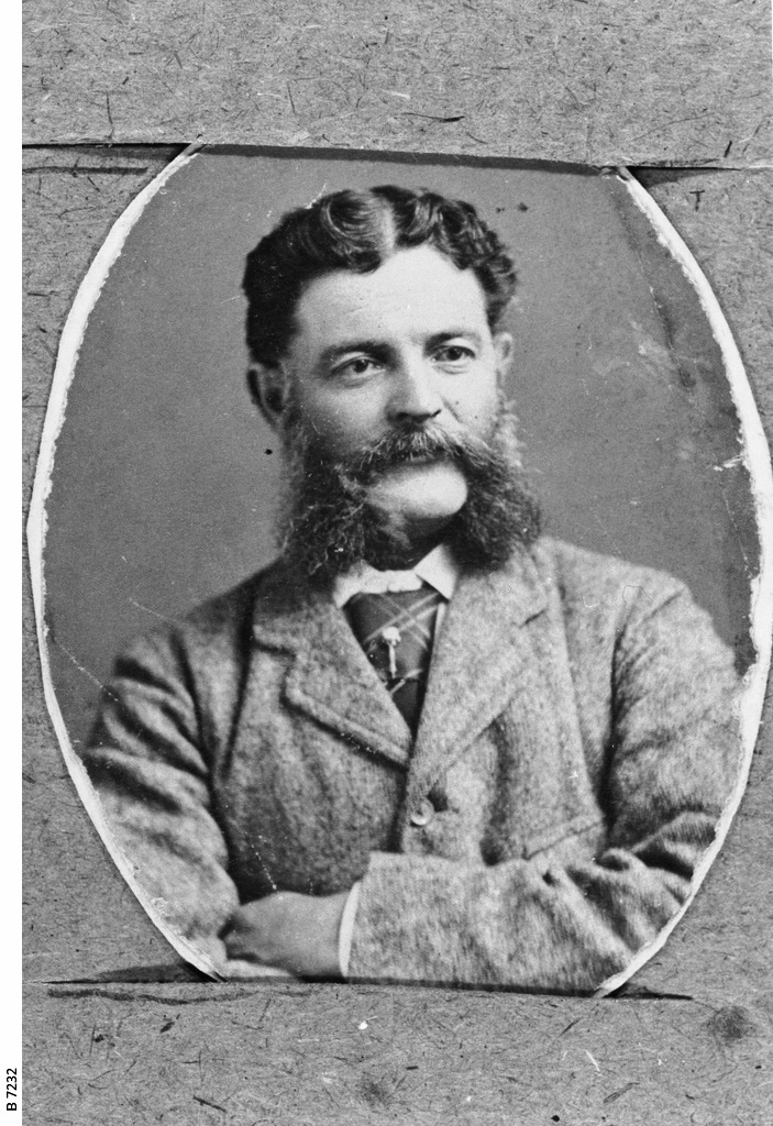 Portrait of Richard Randall Knuckey, surveyor in the early exploration of central and northern Australia. Accompanied George Goyder on Darwin expedition in 1868. Born in Cornwall, he moved to South Australia as a child, and died in Adelaide.